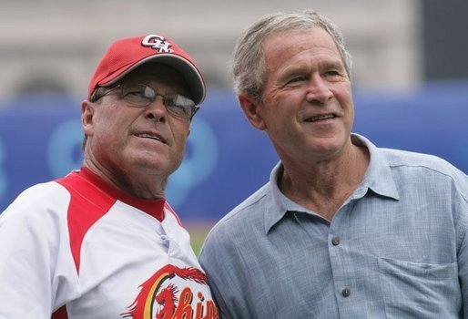 President George W. Bush talks with the Chinese Olympic men's baseball team manager, Jim Lefebvre, prior to a practice game with the U.S. Olympic men's baseball team Monday, August 11, 2008, at the 2008 Summer Olympic Games in Beijing.